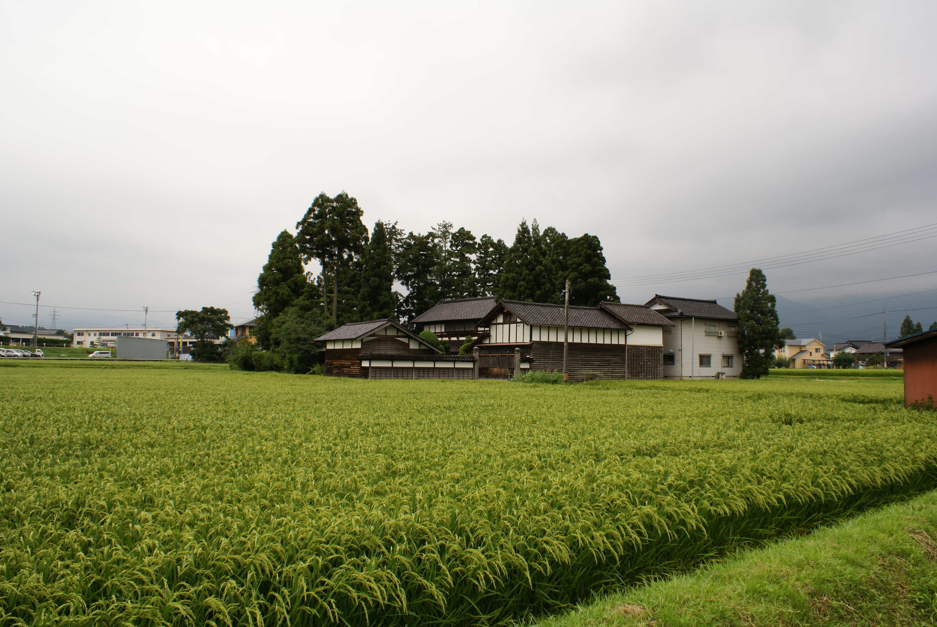 Kainyo (Yashikimori) at Nanto City, Toyama